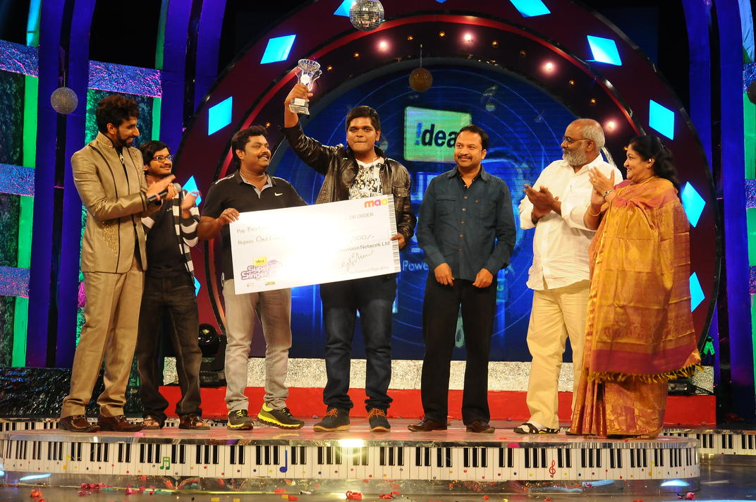 Anurag Kulkarni winning the title of Idea Super Singer Season 8 of MAA TV